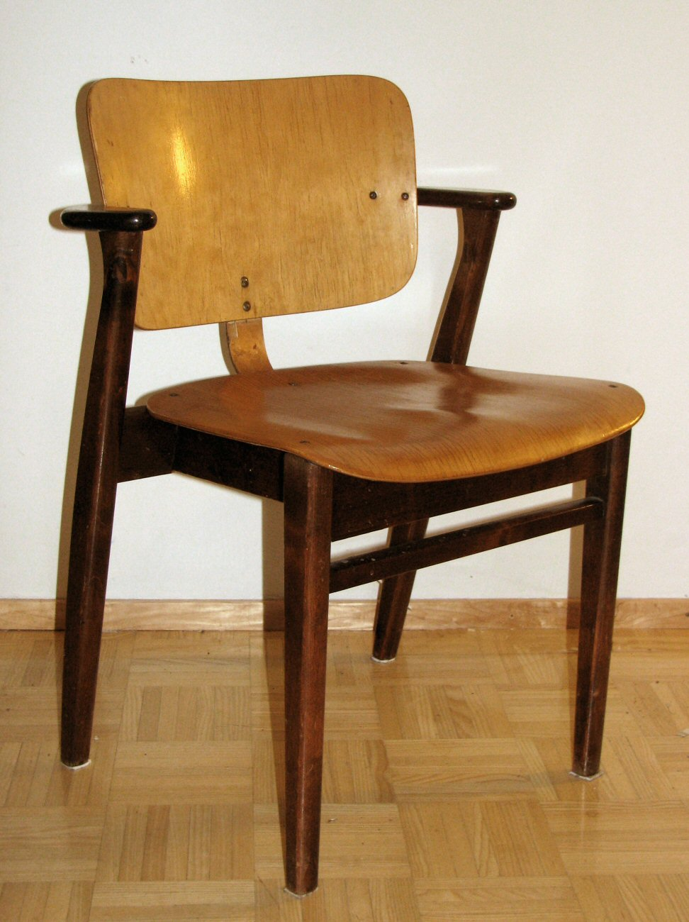 Ilmari Tapiovaara, Domus chair or Finn chair, designed in 1946 for the student housing Domus, Helsinki